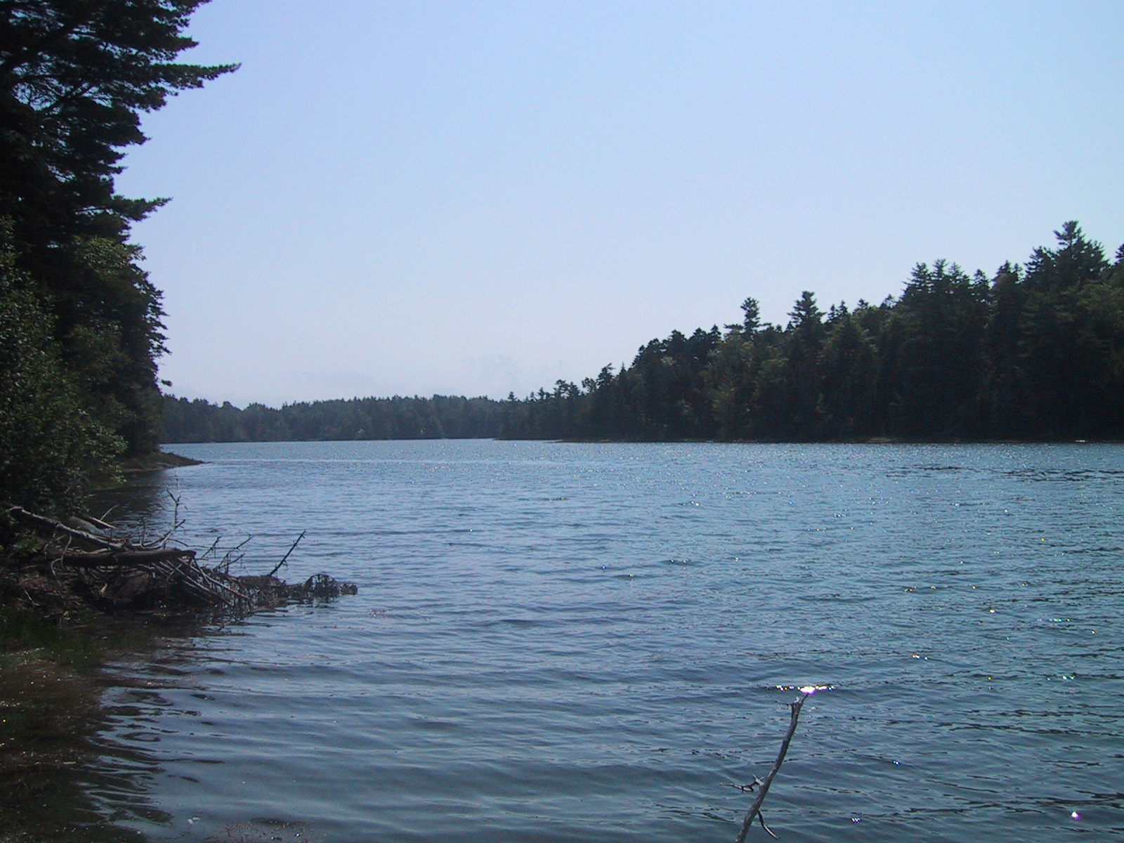 Broad Cove, Cobscook Bay State Park, Maine, at high tide